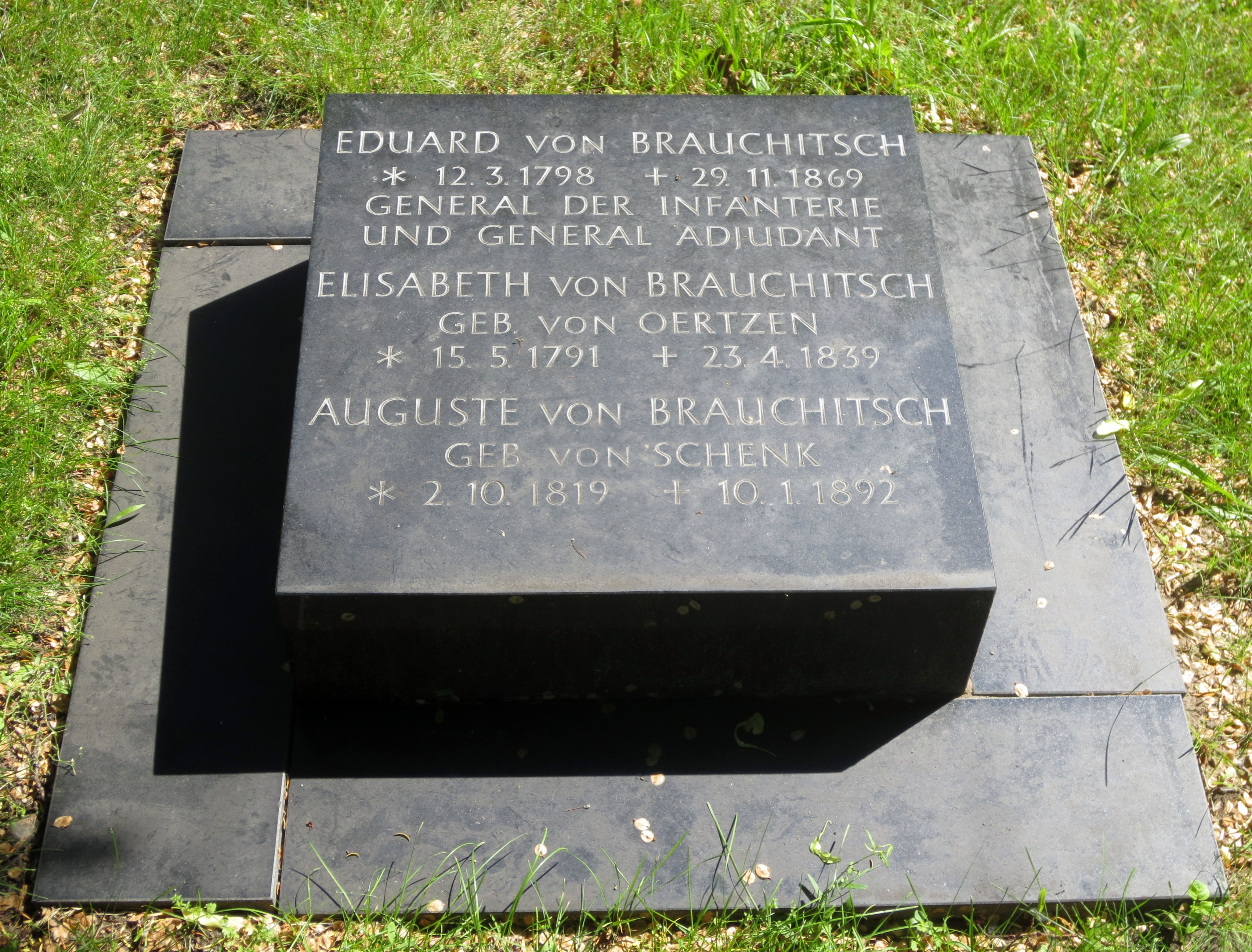 Grave of General of the Infantry Eduard von Brauchitsch (1798-1869) on Invalidenfriedhof cemetery in Berlin, grave field A. Restitution stone form 2012.